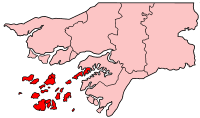 Map of Guinea-Bissau showing Bolama region.